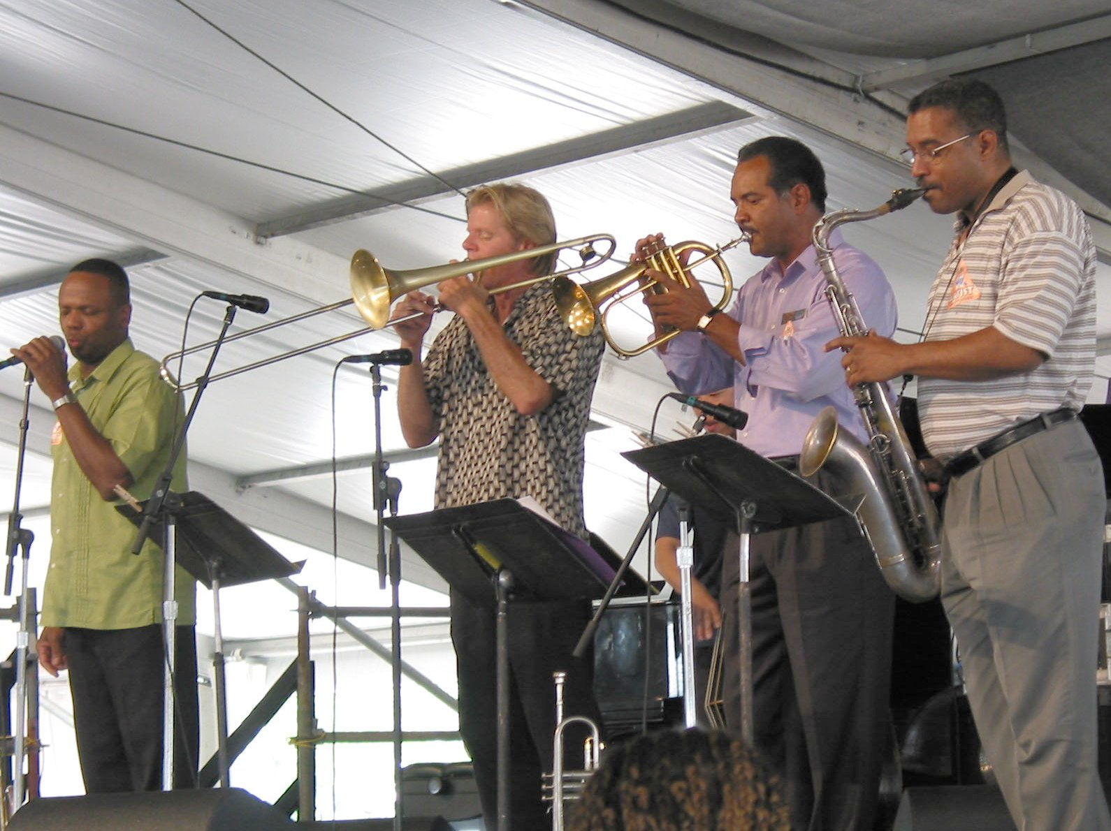 New Orleans, Leroy Jones, Jazz & Heritage Festival